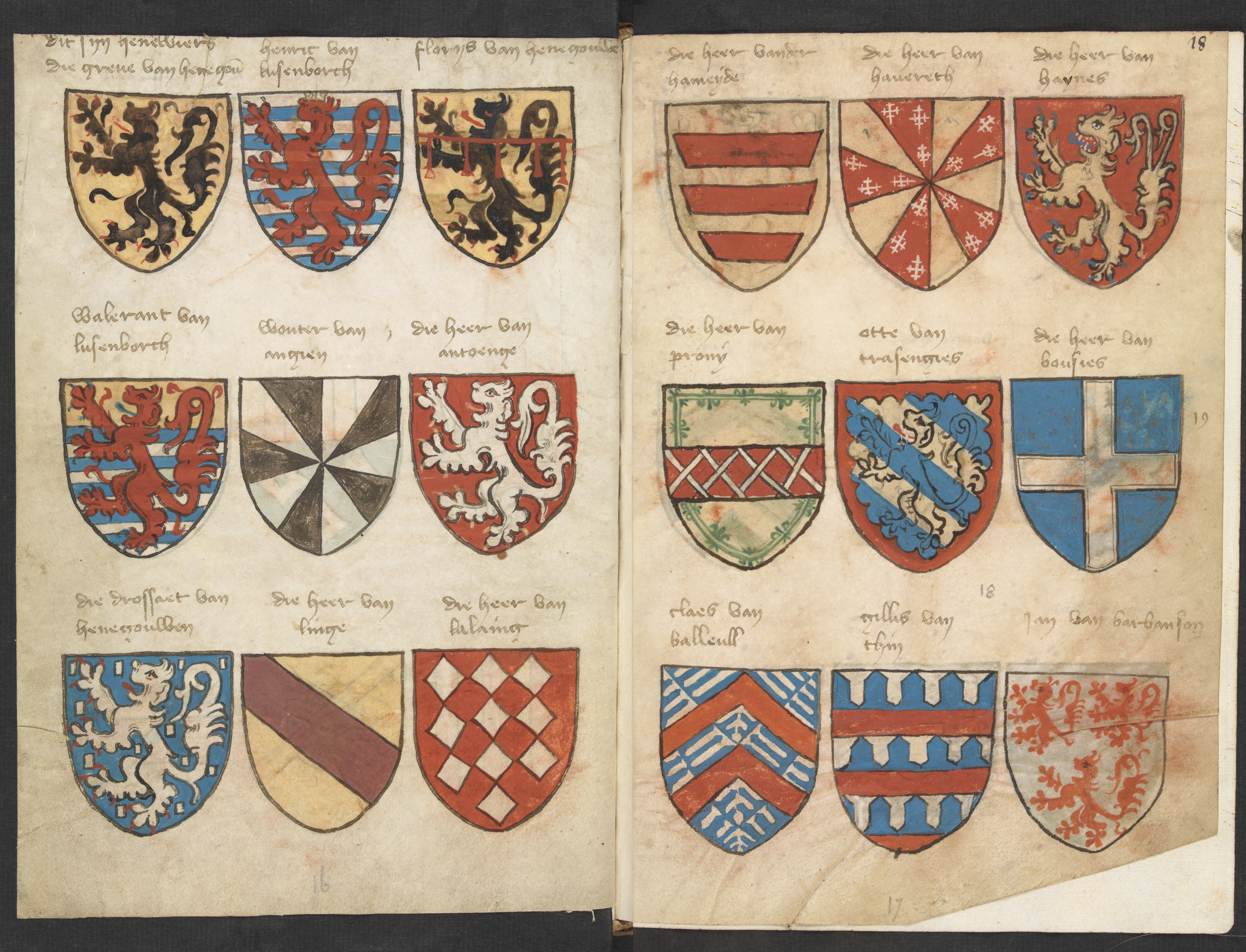 Lefthand side folio 008v; righthand side folio 018r from the Beyeren armorial / Wapenboek Beyeren